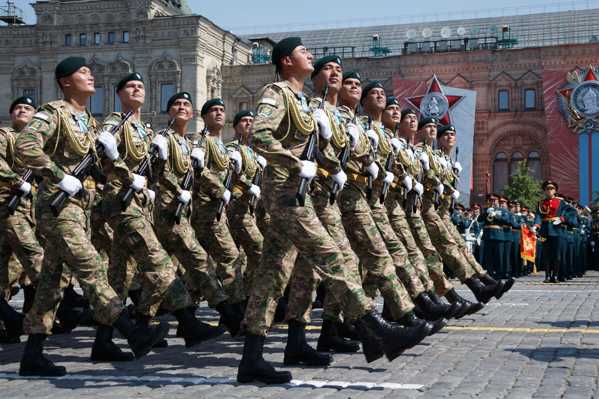 Парад Победы в Москве, посвященный 75-й годовщине Победы в Великой Отечественной войне